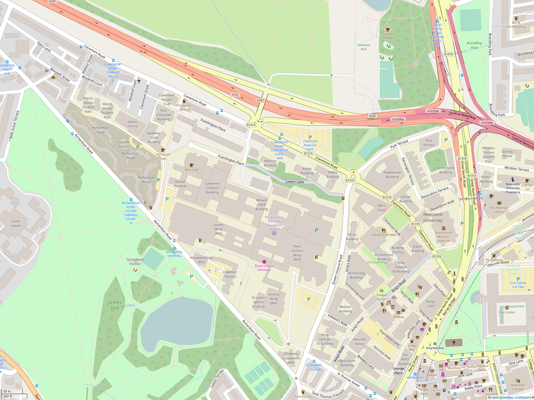 This map may be incomplete, and may contain errors. Don't rely solely on it for navigation.